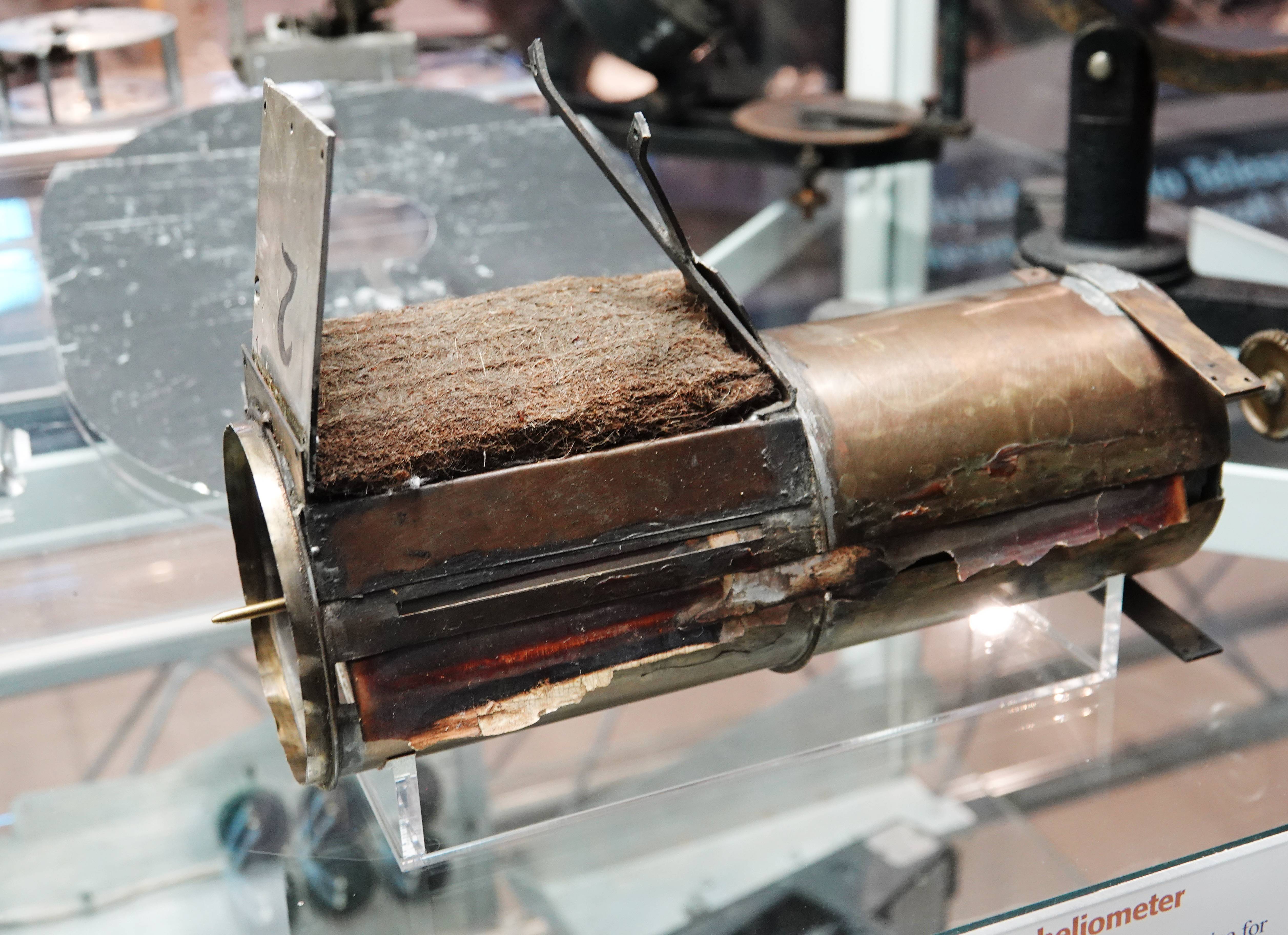 These are parts from balloon-borne pyrheliometer #2 designed by Charles Greeley Abbot and built by his craftsman Andrew Kramer at the original Smithsonian Astrophysical Observatory in about 1913. Following designs that had been developed for meteorographs, the recording medium was sensitized photographic paper on a slowly rotating drum. The drum was encased in a light-tight chamber save for an entrance slit parallel to the diameter. A thermometer filled the slight so that the mercury level would be recorded by the rotating paper as a function of time, and of altitude, as recorder by a barometric needle whose shadow was also superimposed. Other clockdriven elements periodically exposed the bulb of the thermometer to direct skylight and to ambient air temperature. This instrument stands as a milestone in sophistication and ingenuity in early self-registering automata. The balloon-sondes were lofted from Catalina Island off the coast of California and some reached 25 kilometers altitude. Data from these devices led to greatly refined values of Langley's solar constant, and helped to establish the modern range. A complete unit (#3) is preserved at the National Museum of American History. These parts were retrieved from the stores of the original SAO workshops, housed in the Garber facility, in the mid-1980s. Picture taken at the National Air and Space Museum's Steven F. Udvar-Hazy Center in Chantilly, Virginia, USA.